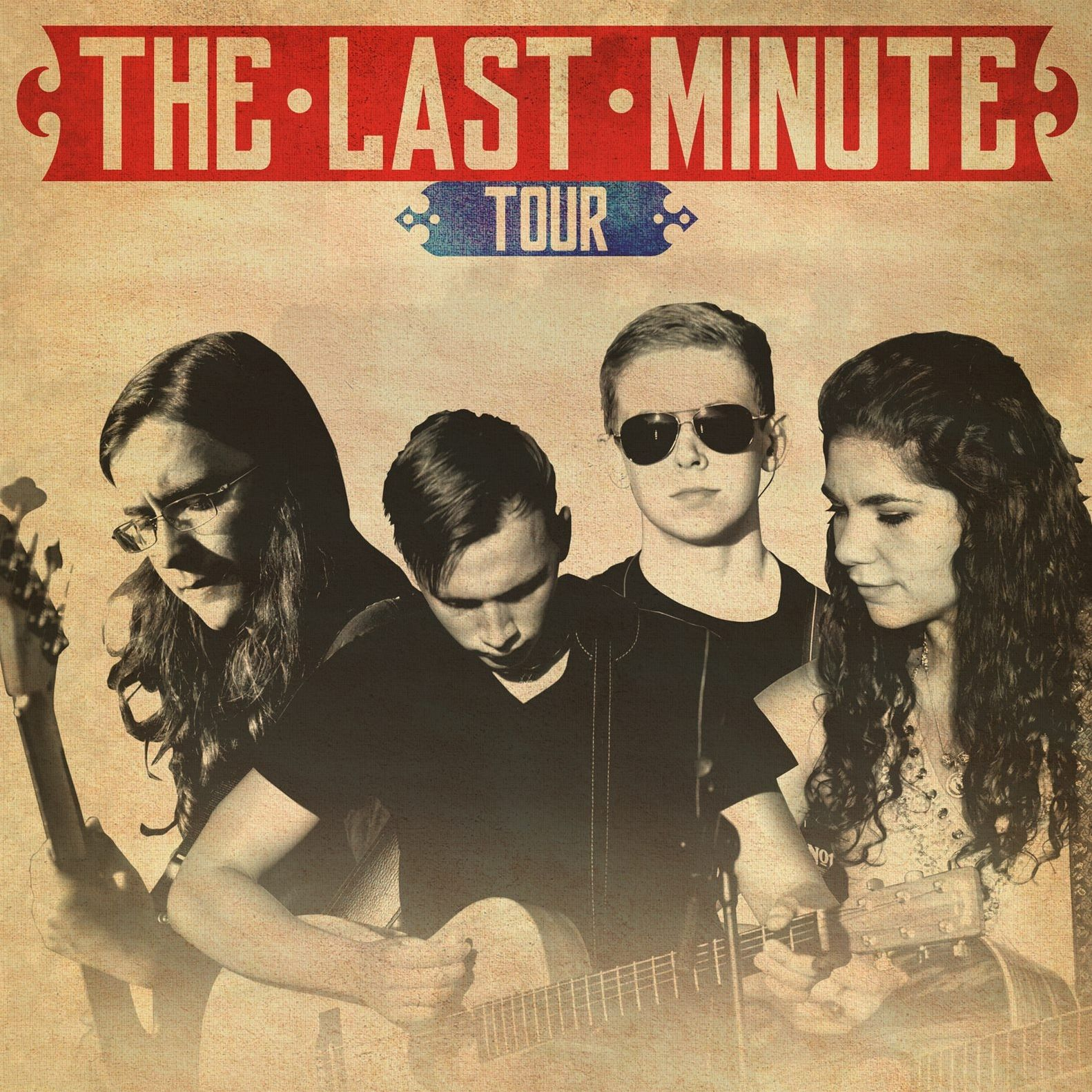 Tour Poster from the 2016 "The Last Minute" tour.